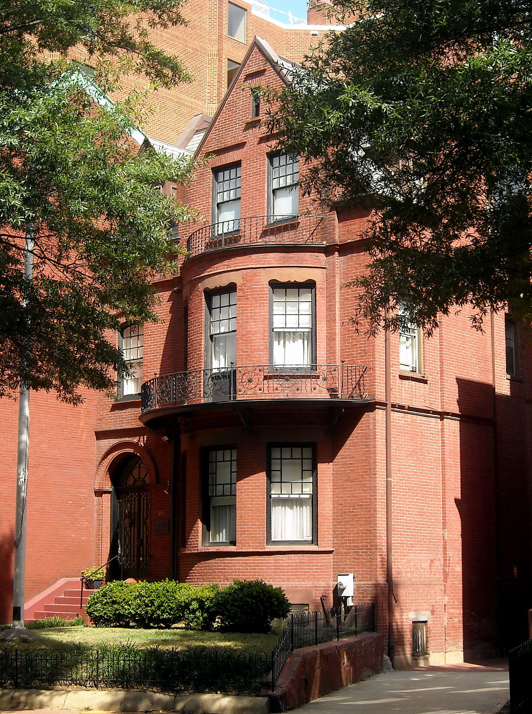 The United States Daughters of 1812, National Headquarters (also known as the Admiral John Henry Upshur House) located at 1461 Rhode Island Avenue, NW in the Logan Circle neighborhood of Washington, D.C. Designed by Frederick Withers in 1884, the Queen Anne building is listed on the National Register of Historic Places.